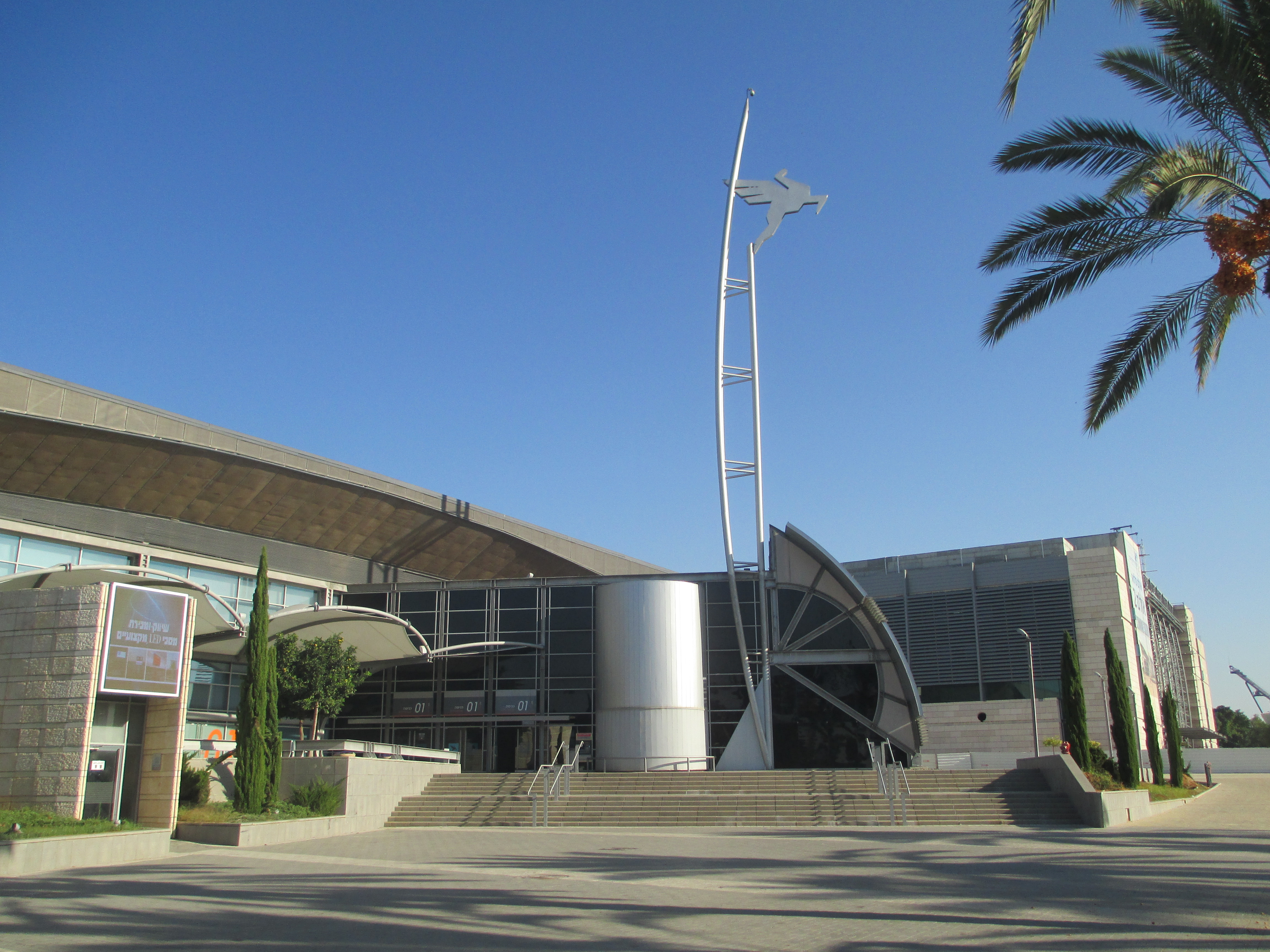 Israel Trade Fairs & Convention Center